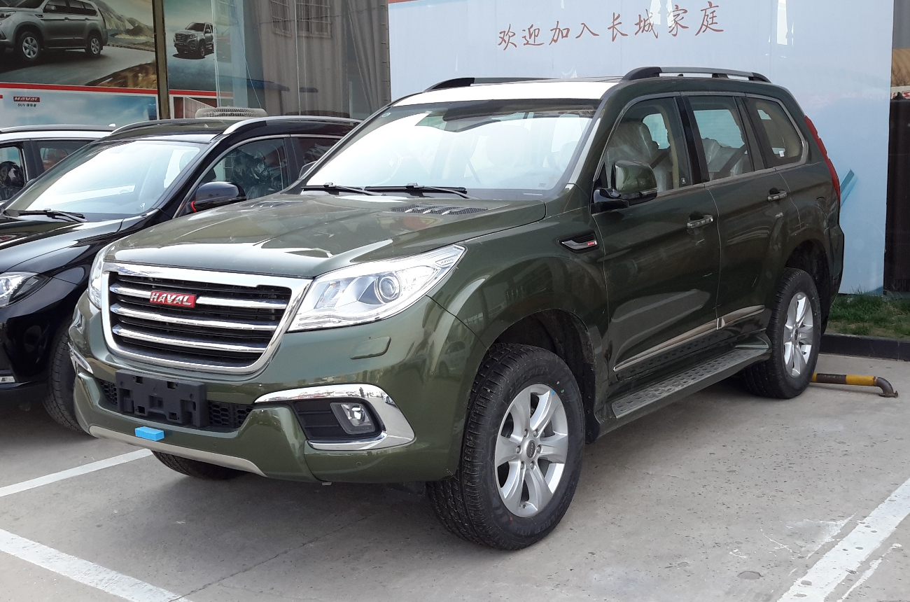 Haval H9 photographed in Xi'an, Shaanxi province, China.